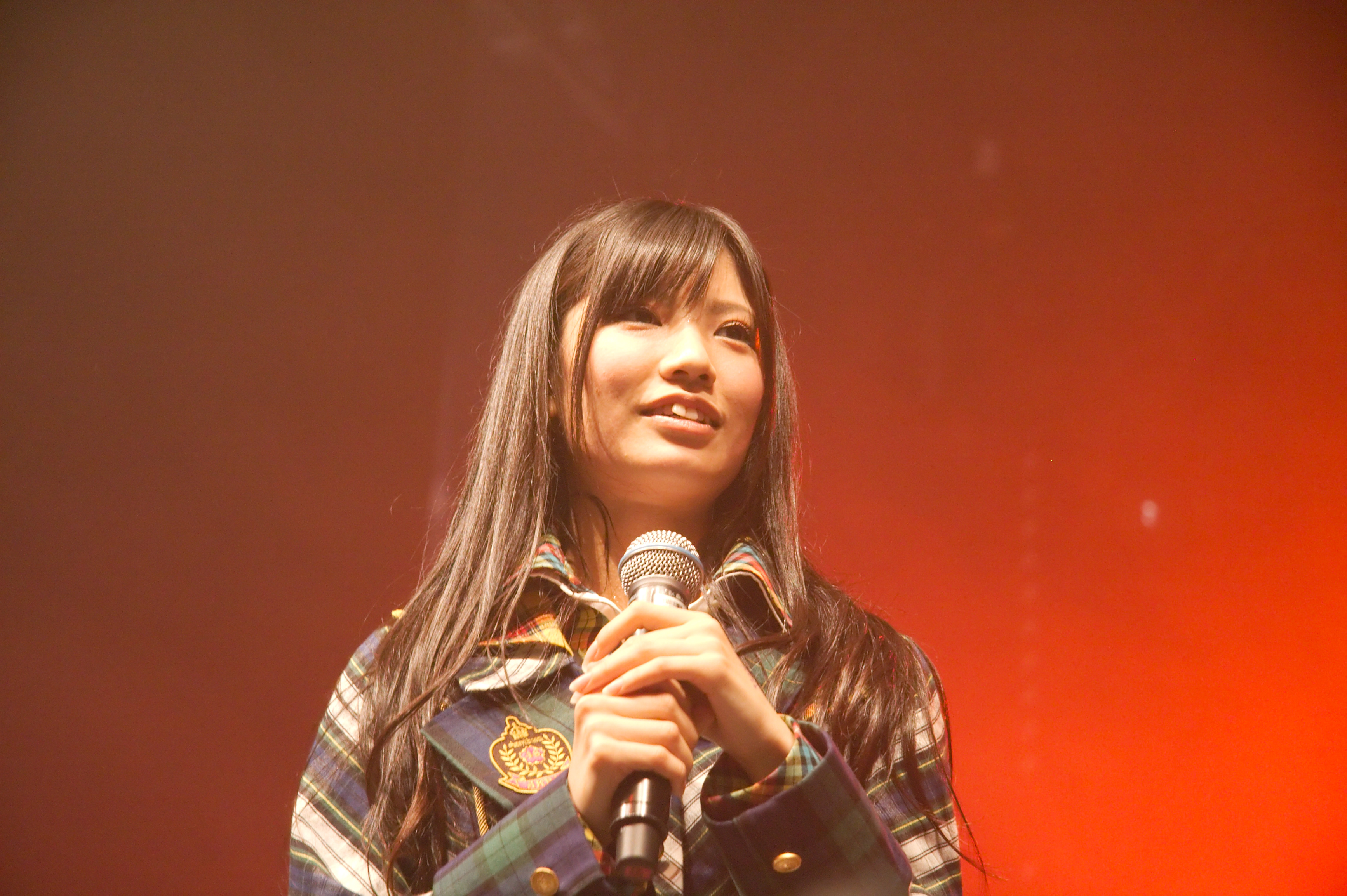 AKB48 live at Japan Expo 2009 (Paris, France).